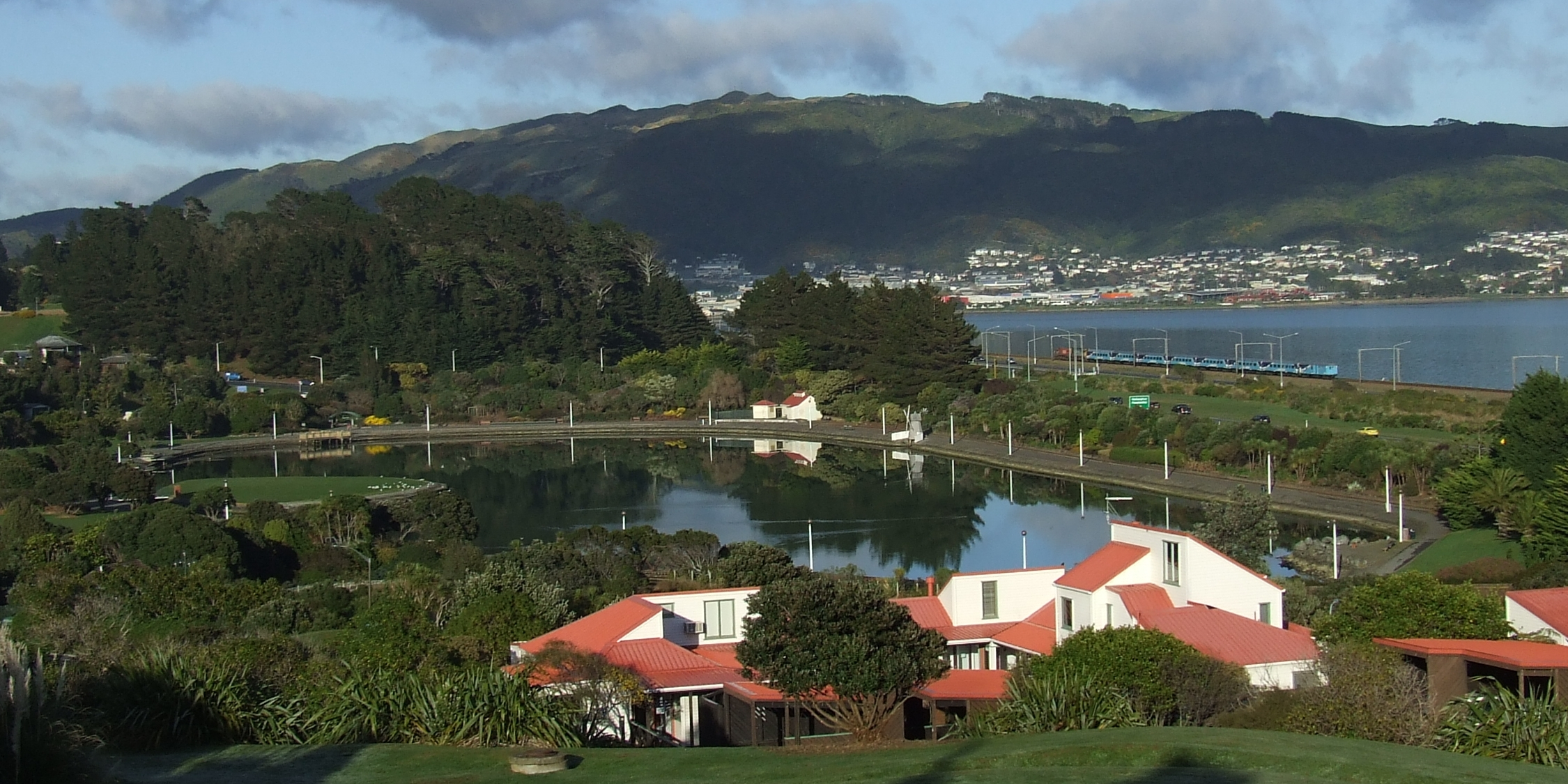 View of Aotea Lagoon, North Island, New Zealand from the north-east. Royal New Zealand Police College chalets in the foreground with Pipitea miniature railway station across the lagoon. To the right State Highway 1 and the North Island Main Trunk railway line with a southbound Capital Connection train. Further right is Porirua Harbour, in the background Porirua city centre and the Colonial Knob ridge.